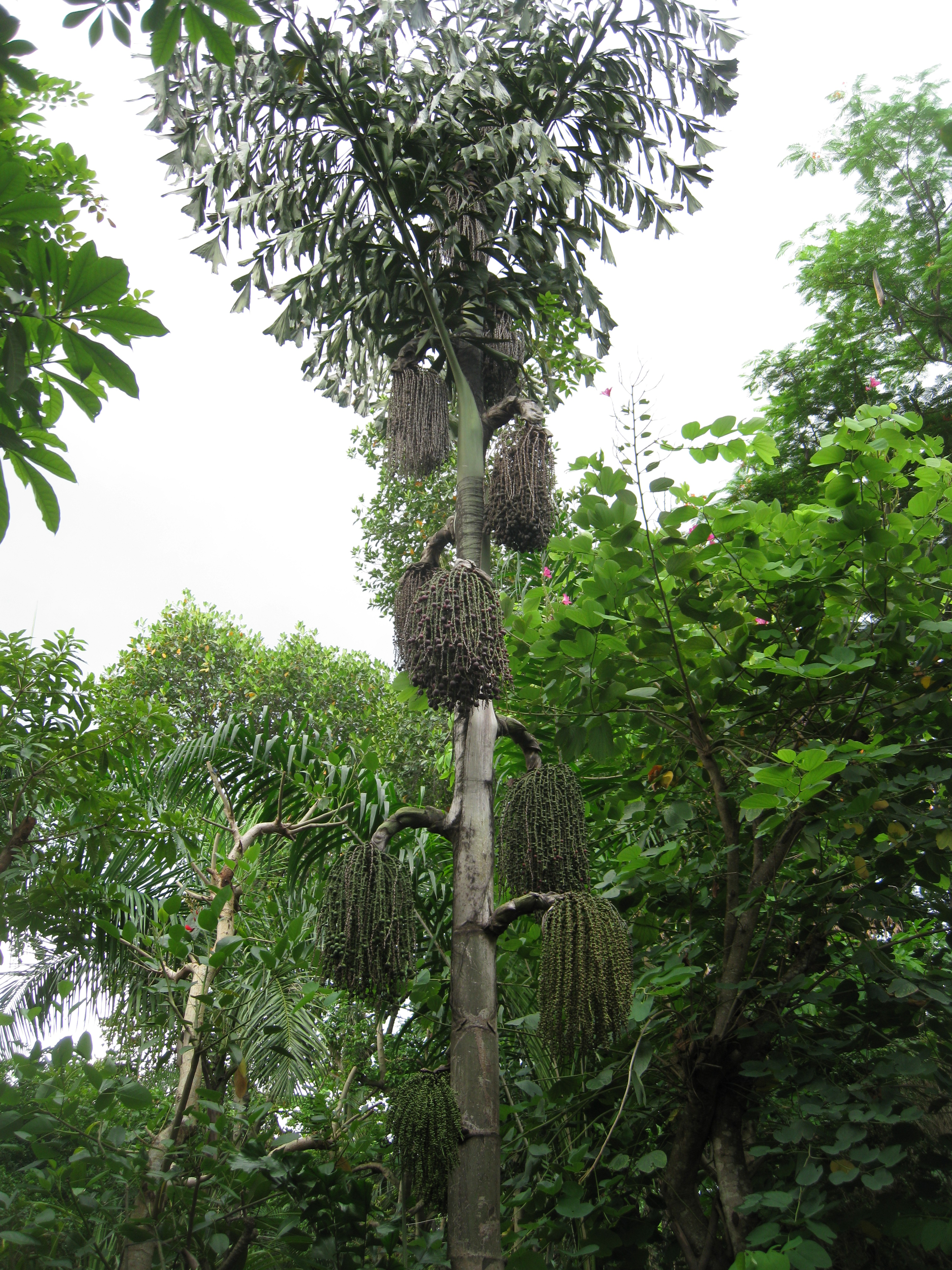 A Caryota mitis tree in Vietnam.